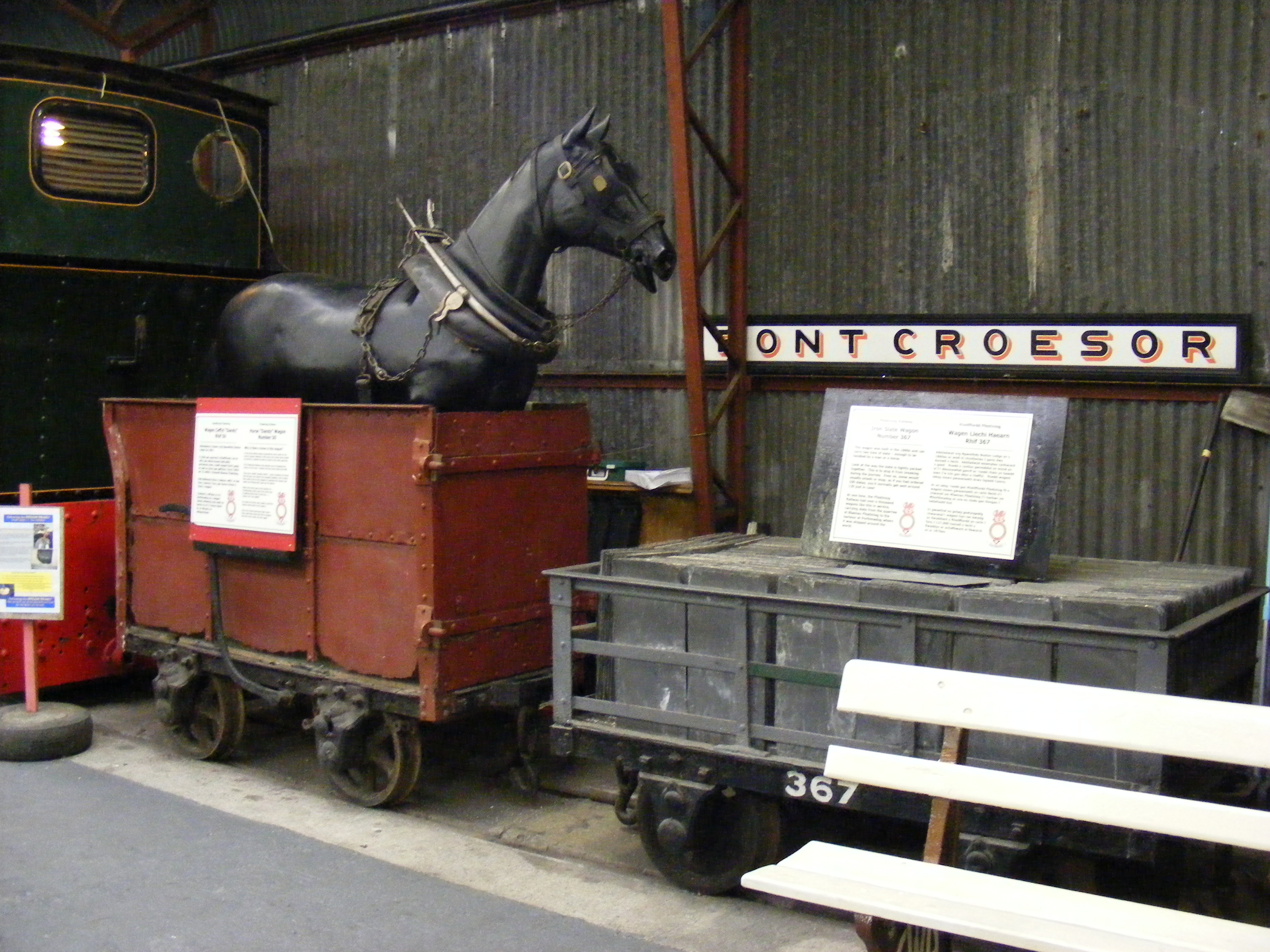 A slate wagon and a dandy wagon from the Ffestinog Railway. Before they had built narrow gauge steam locomotives the states trains would travel down to Porthmadog under gravity and be pulled back up by horses.